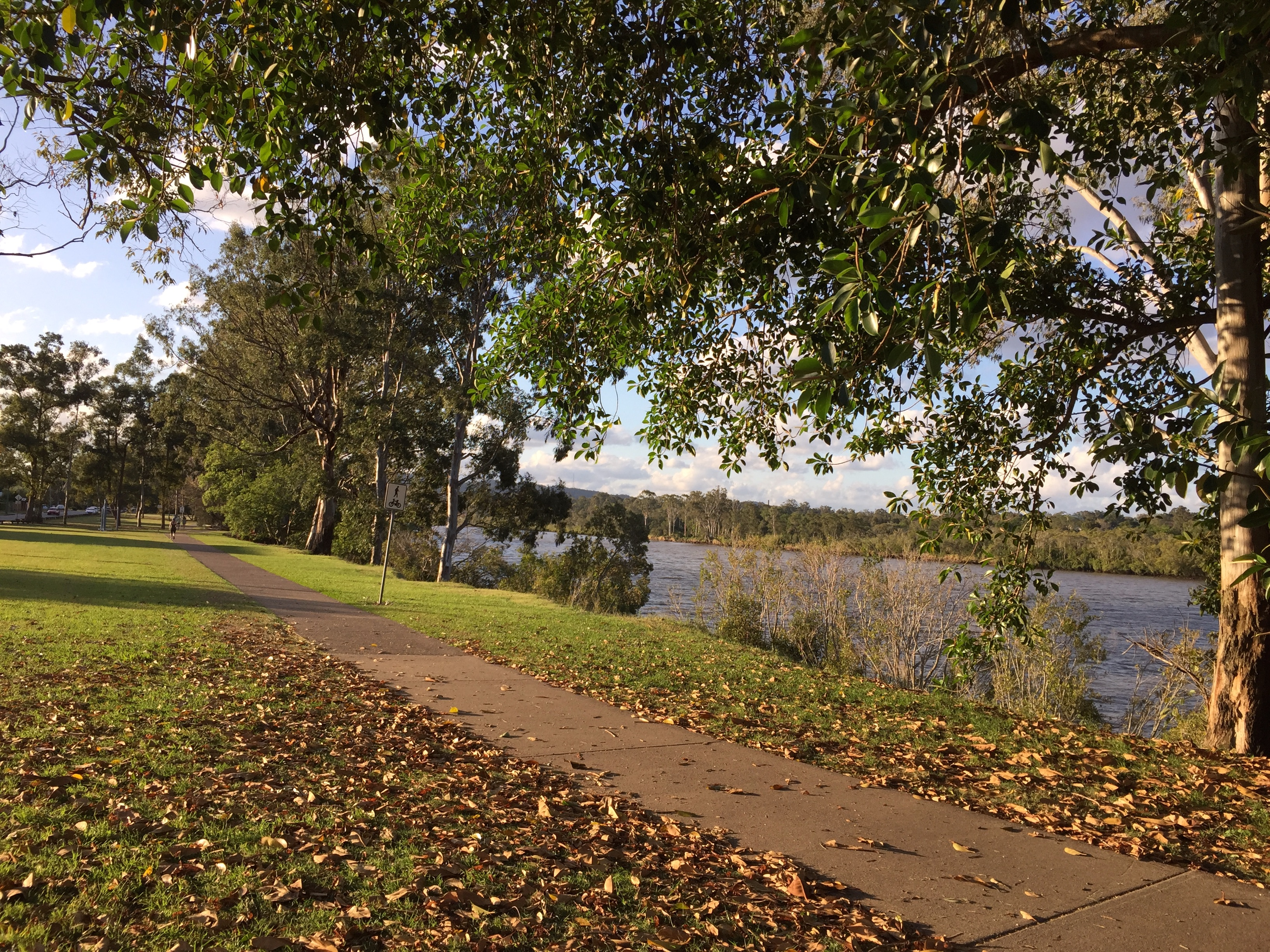 Parklands and walkways along the Brisbane River at Graceville, Brisbane, Queensland